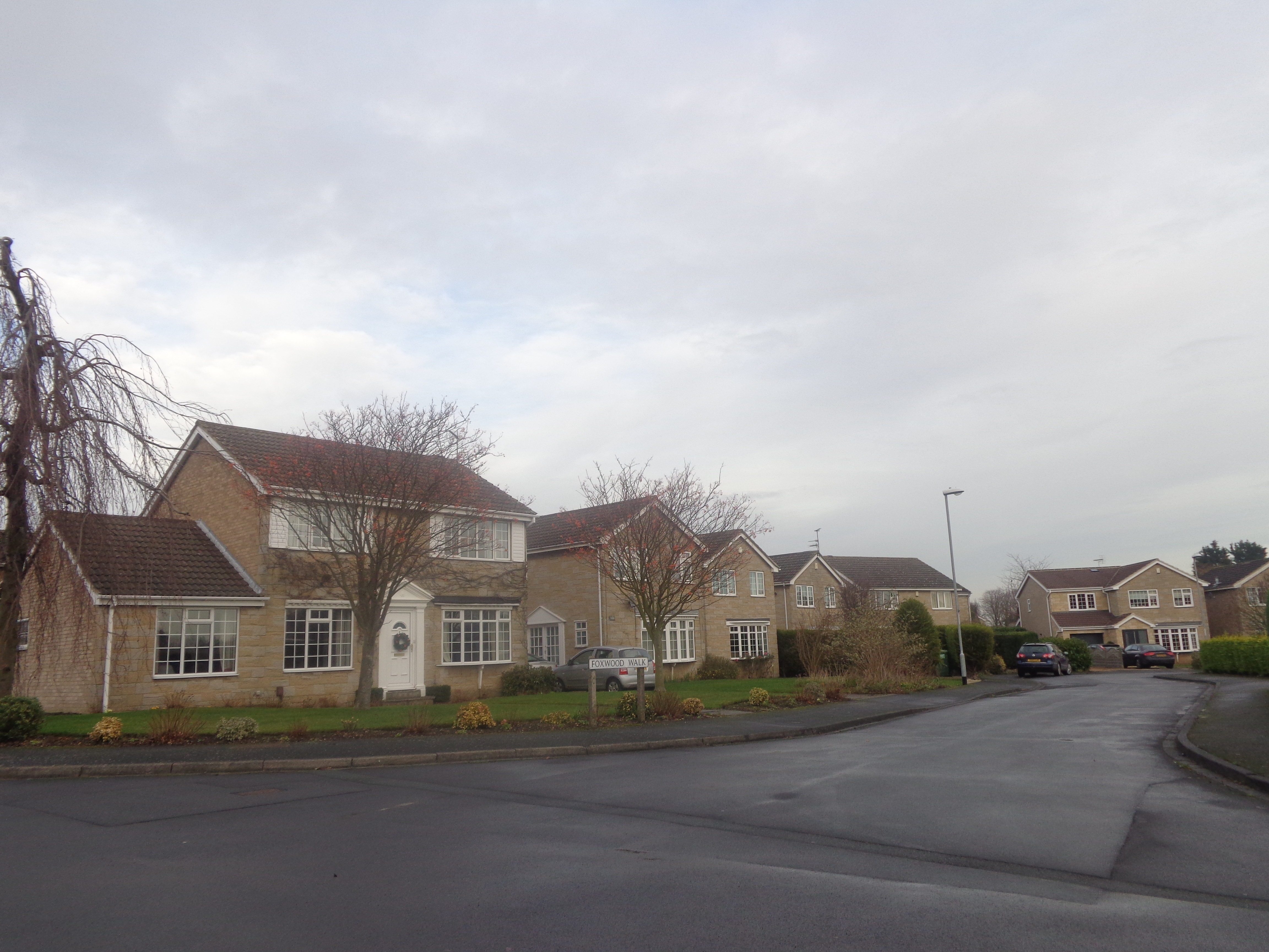 Foxwood Walk, a 1970s residential street on the Barratt estate in Wetherby, West Yorkshire. Taken on the afternoon of Wednesday the 31st of December 2014.